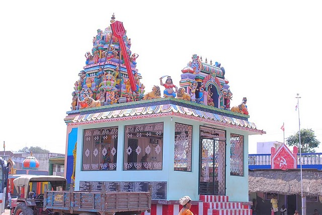 Vannivelampatti